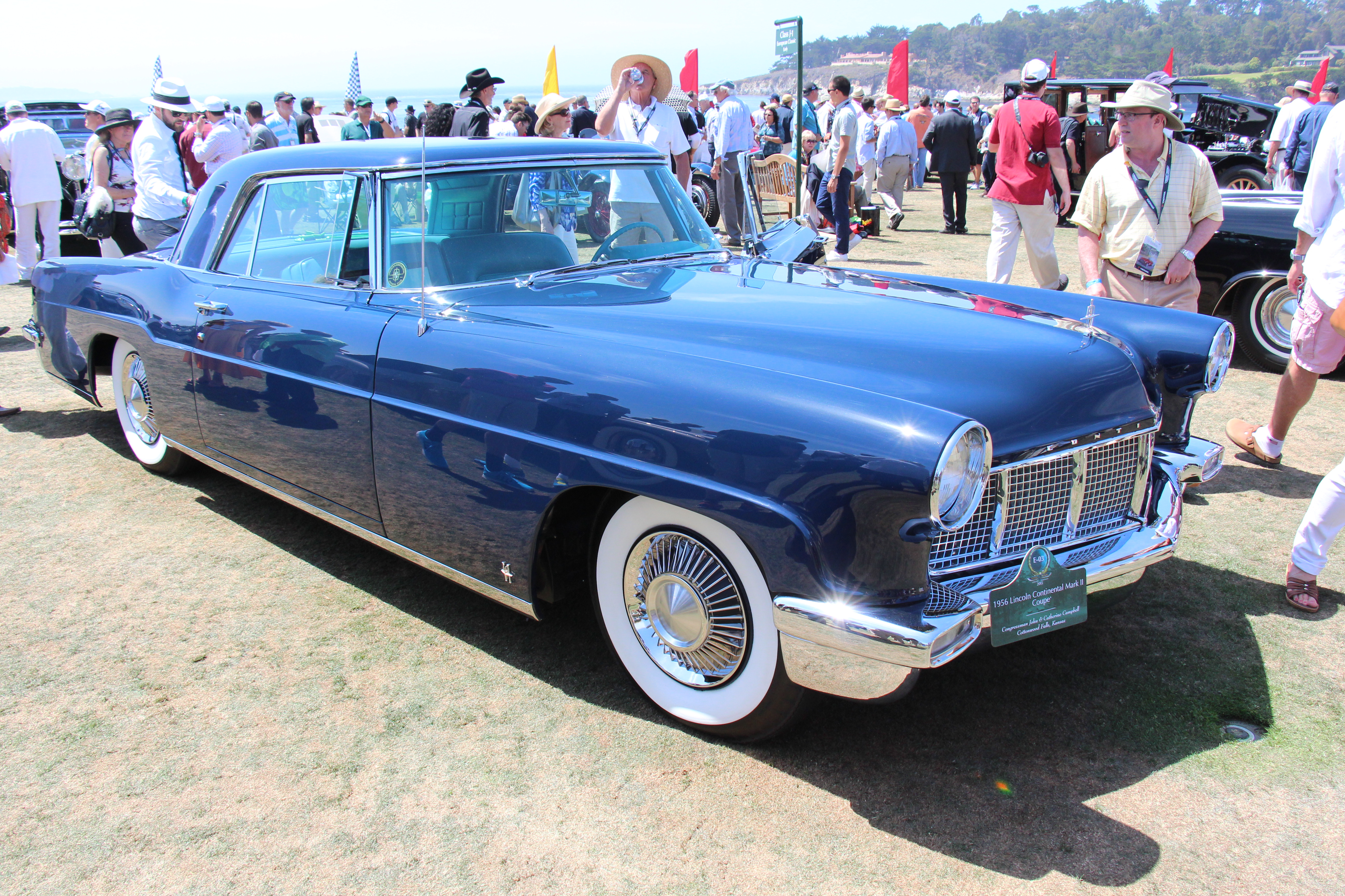 While technically never a Lincoln and manufactured by a separate new division, Continental, the Mark II was sold and maintained through Lincoln dealerships. Only available for 2 years, these Continentals were among the most expensive cars in the world. Famous owners included Elvis Presley, Frank Sinatra, Elizabeth Taylor, the Shah of Iran. About 3000 were built and only as a 2 door Hardtop. Engine; 385hp 368 cu in Lincoln V8. Photographed at the 2015 Pebble Beach Concours d'Elegance